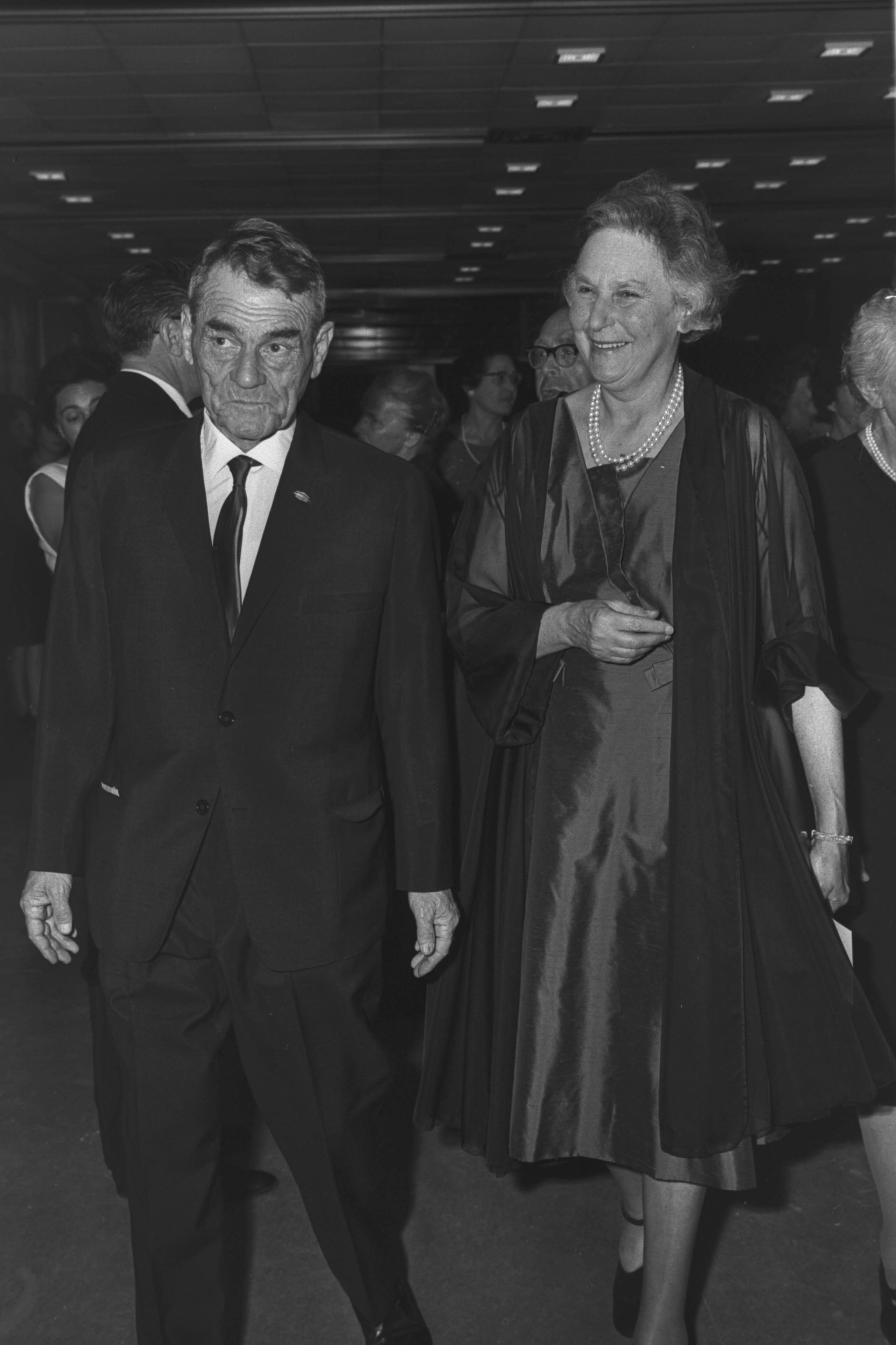 KNESSET SPEAKER KADISH LUZ WITH BARONESS JAMES DE ROTSHILD DURING THE RECEPTION GIVEN BY HIM IN HER HONOUR AFTER THE INAUGURATION CEREMONY OF THE NEW KNESSET BUILDING.